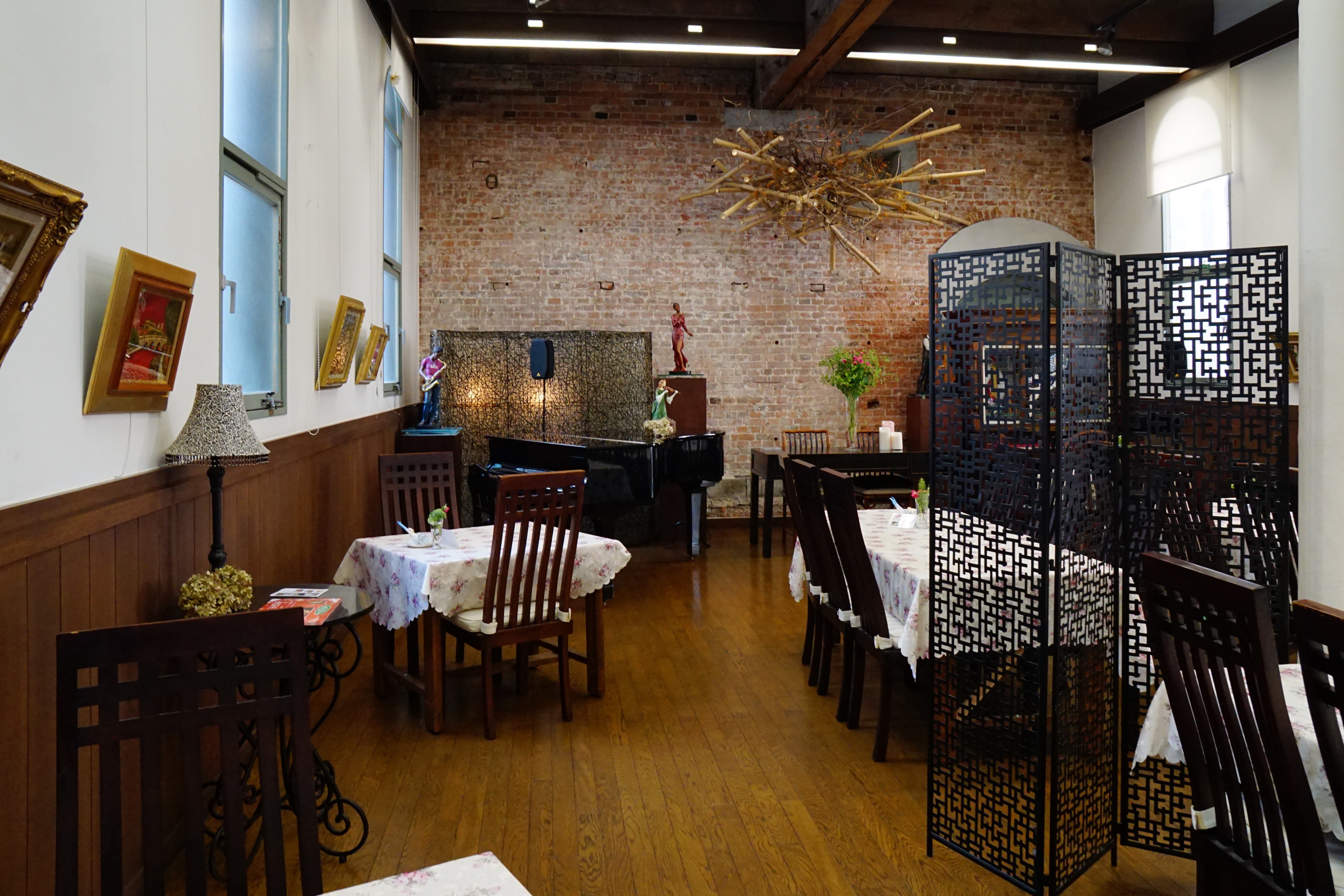 Shimonoseki Nabe-cho Post Office in Shimonoseki, Yamaguchi prefecture, Japan.